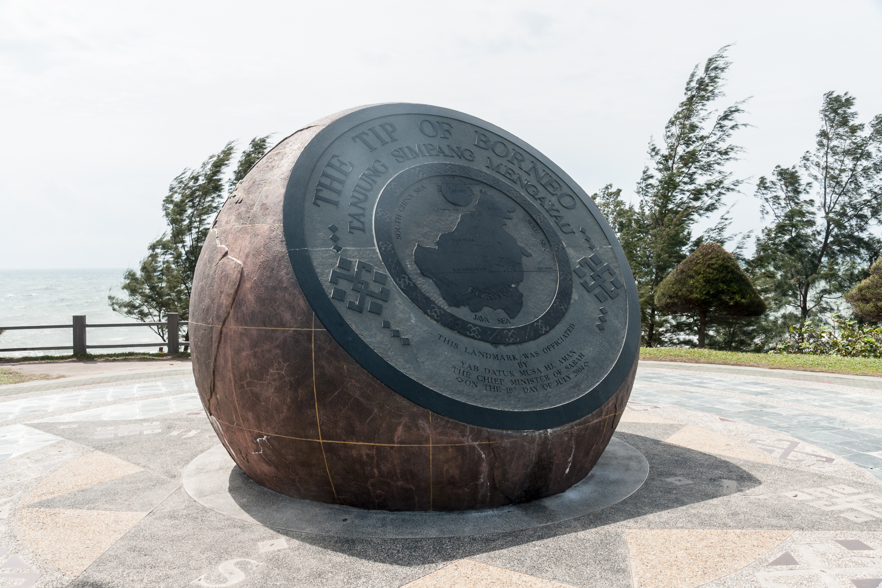 Kudat, Sabah: Tanjung Simpang Mengayau (Tip of Borneo)